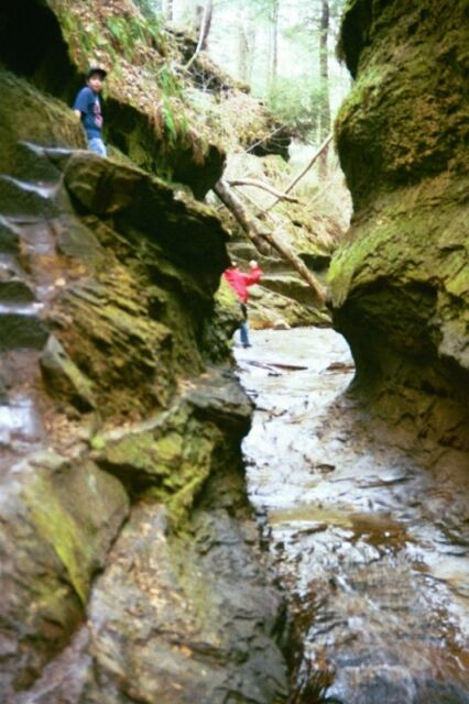 Rocky Hollow National Natural Landmark, Turkey Run State Park, Indiana